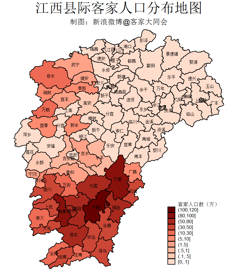 Hakka Population in county level of Jiangxi